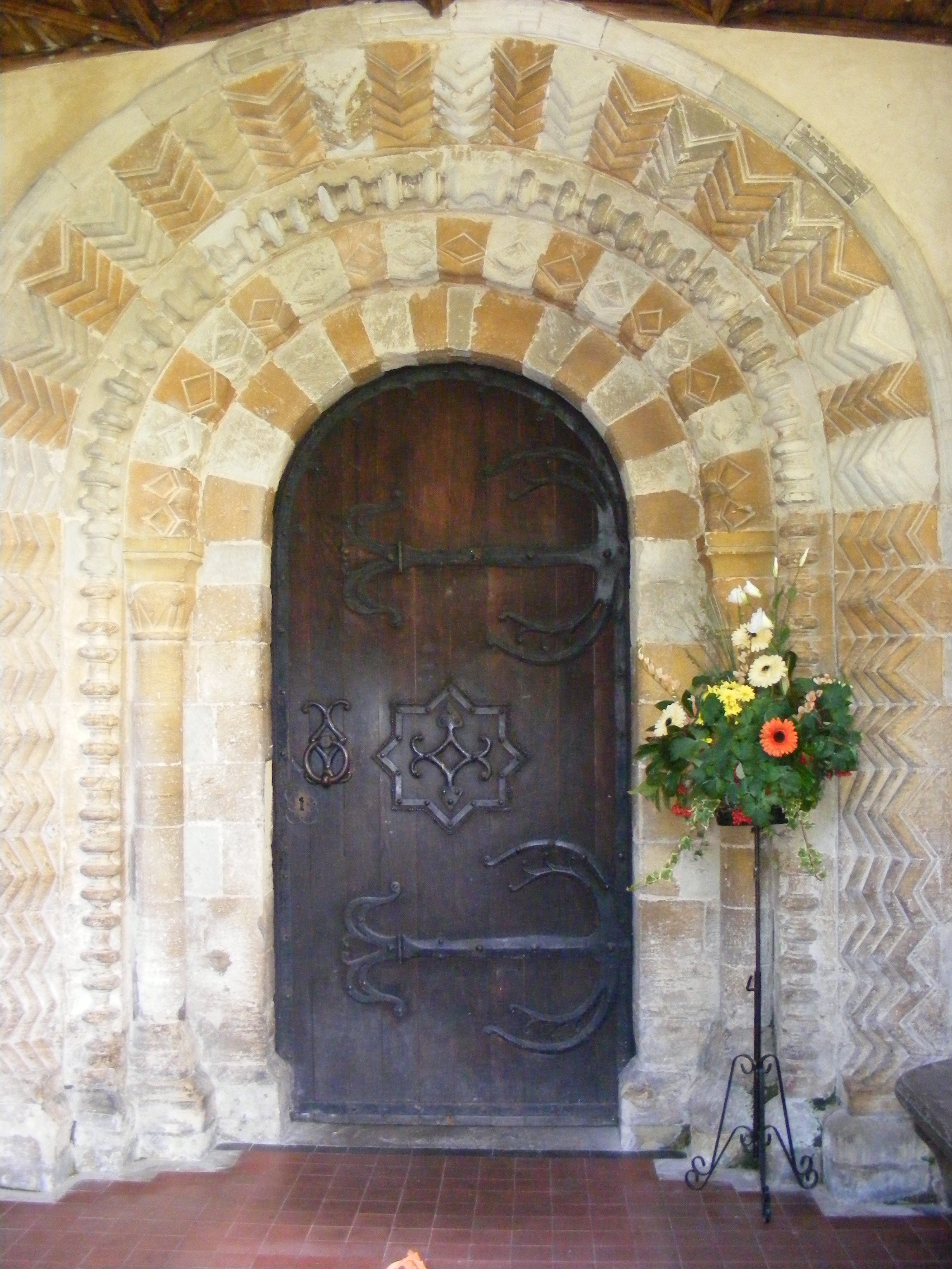 12th-century Norman doorway in the north porch of St Michael and All Angels parish church, Horton, Berkshire (formerly Buckinghamshire)